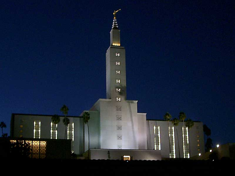 "Taken by me on 9/11/2004"